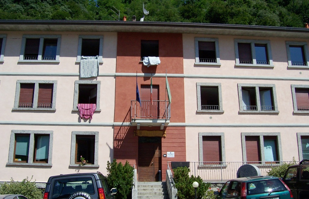 Town hall. Prestine, Val Camonica